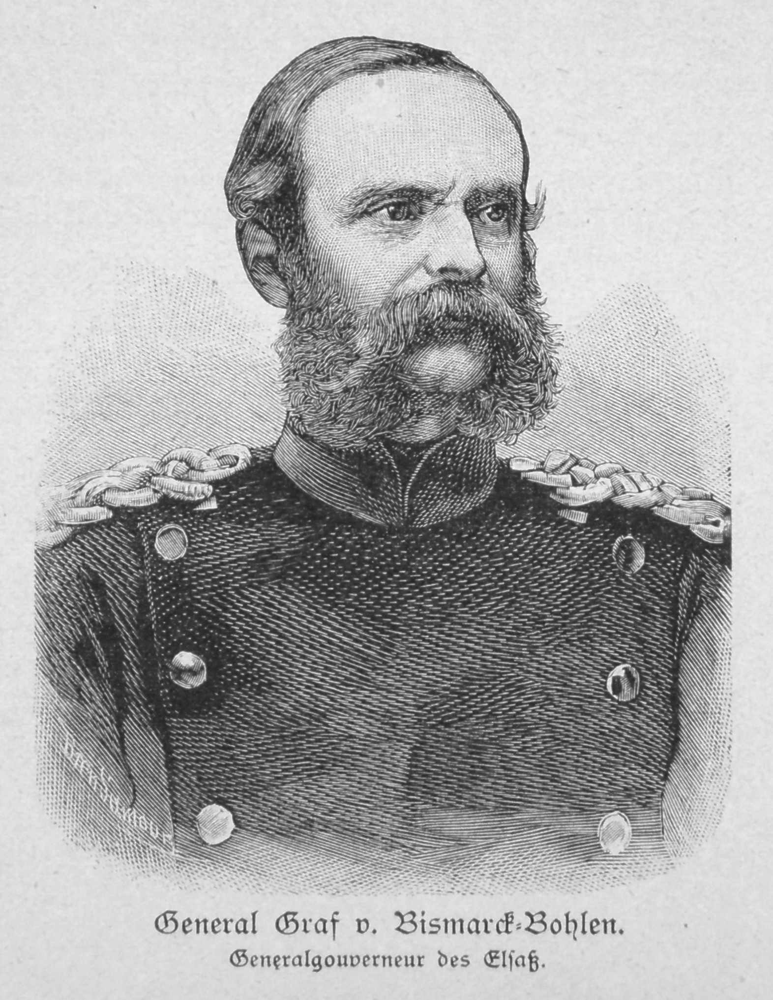 general earl von Bismarck-Bohlen